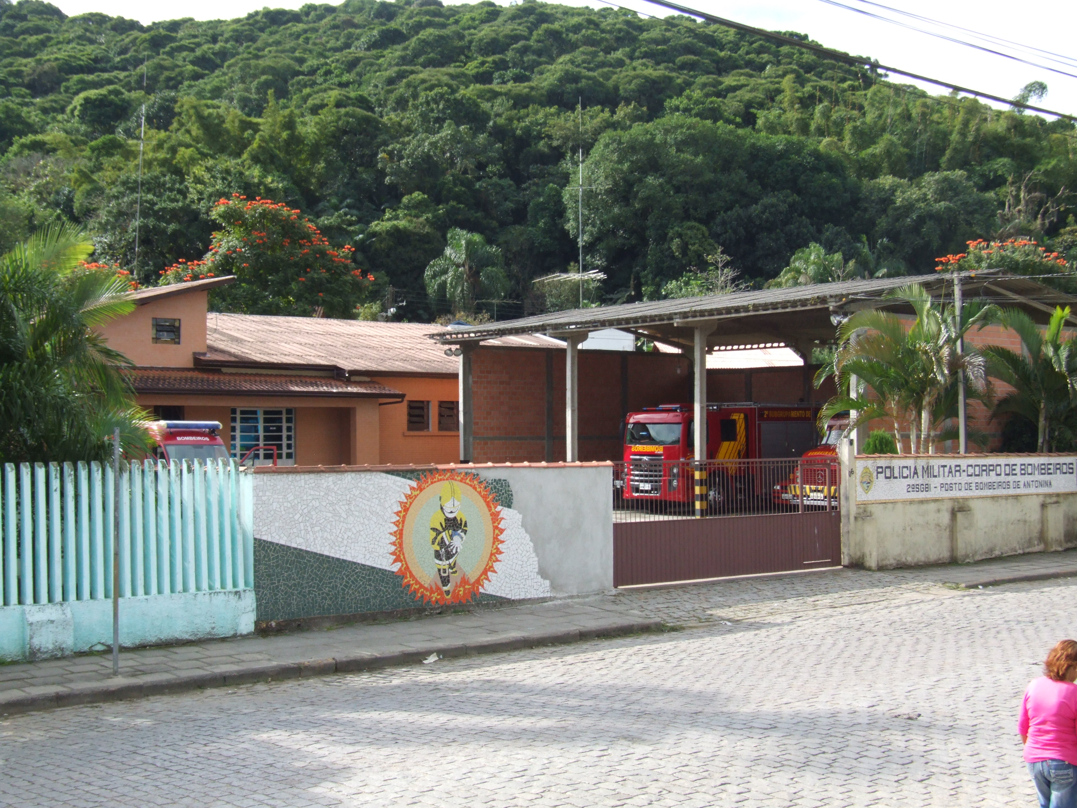 Fire Department of Antonina.